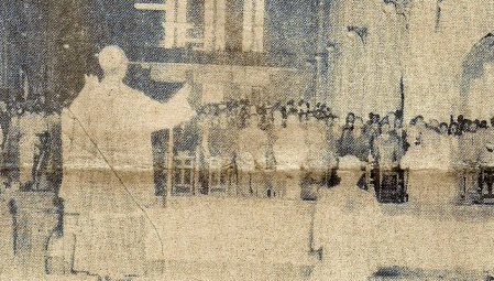 Joseph Kasa-Vubu, members of the central government, and parliamentary deputies at a ceremony at the Notre Dame du Congo. Joseph Malula leads the ceremony.